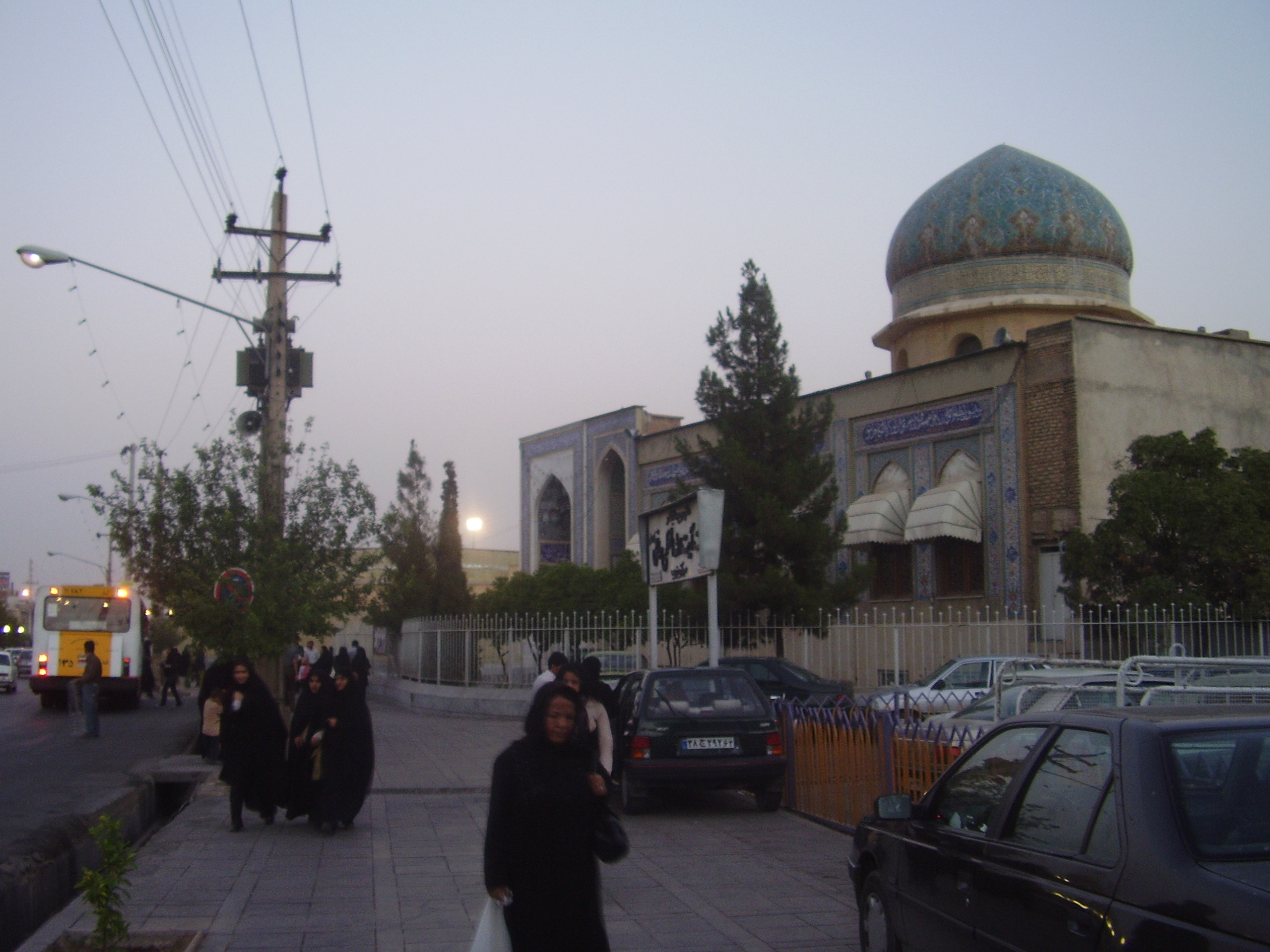 This is an image of the House of the Bab in Shiraz as it looks now. The original House was destroyed. A road and mosque were built in its place. The room where the Bab declared to Mulla Husayn is indicated by the electric pole.